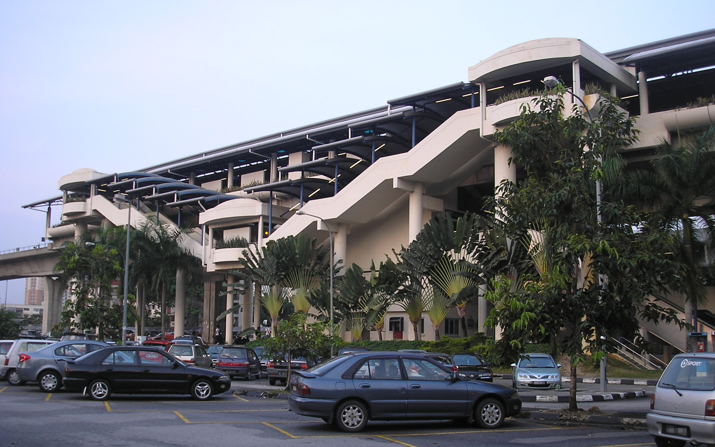 An exterior view towards the east of the Sentul station (common Ampang Line route), in Sentul, Kuala Lumpur, Malaysia.